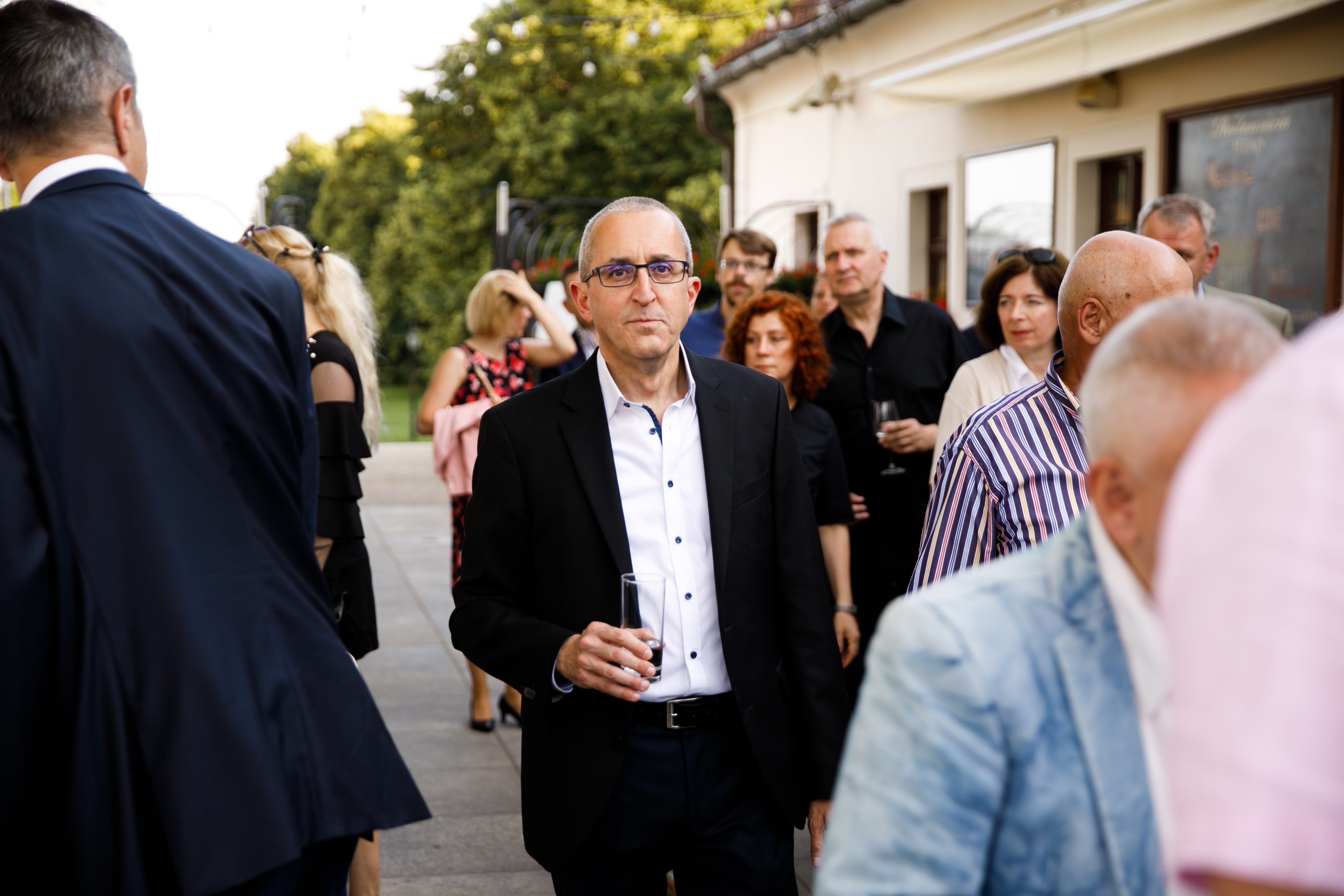 Portrait